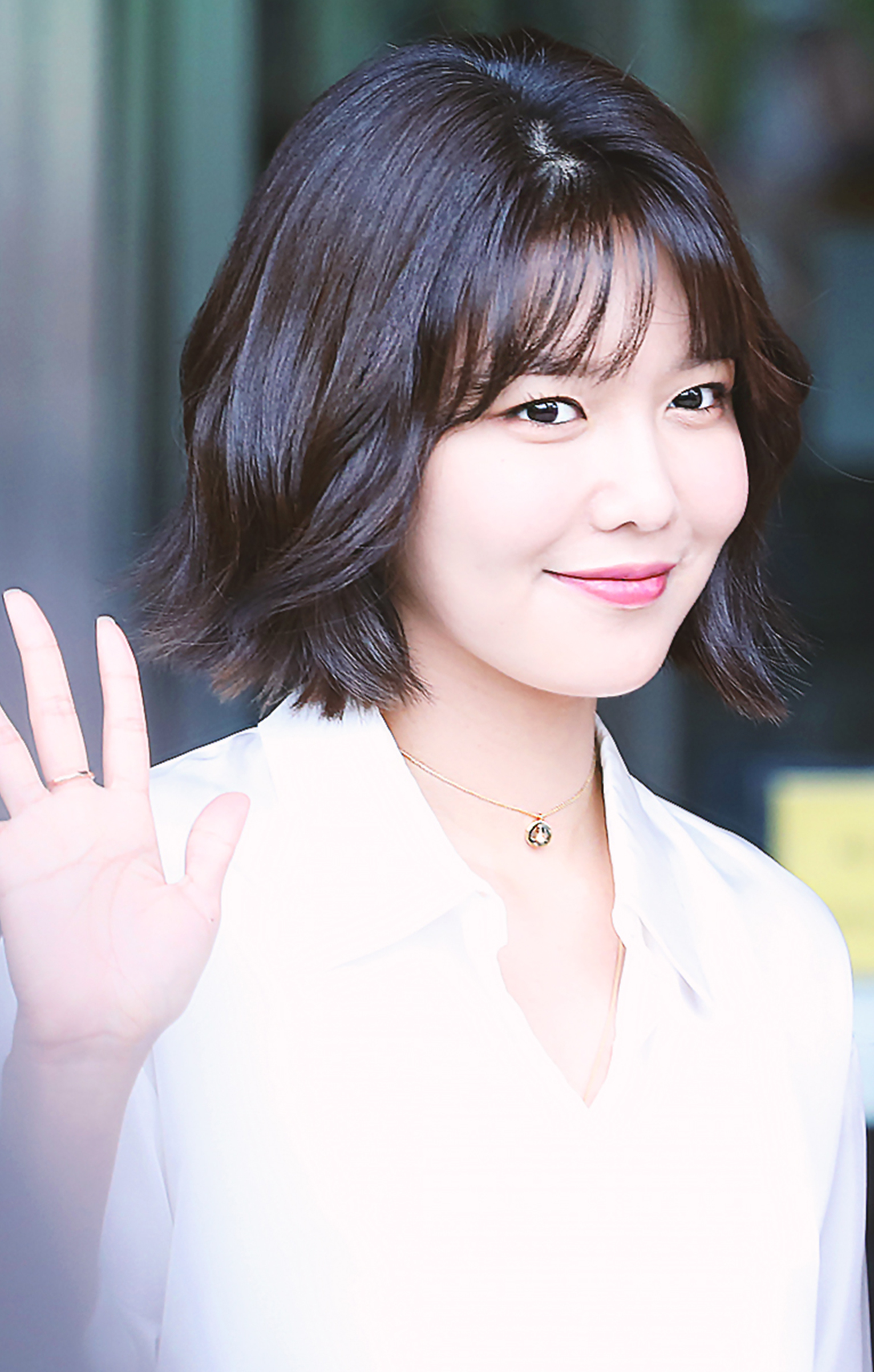 Choi Soo-young going to a KBS Happy Together recording on July 29, 2017.